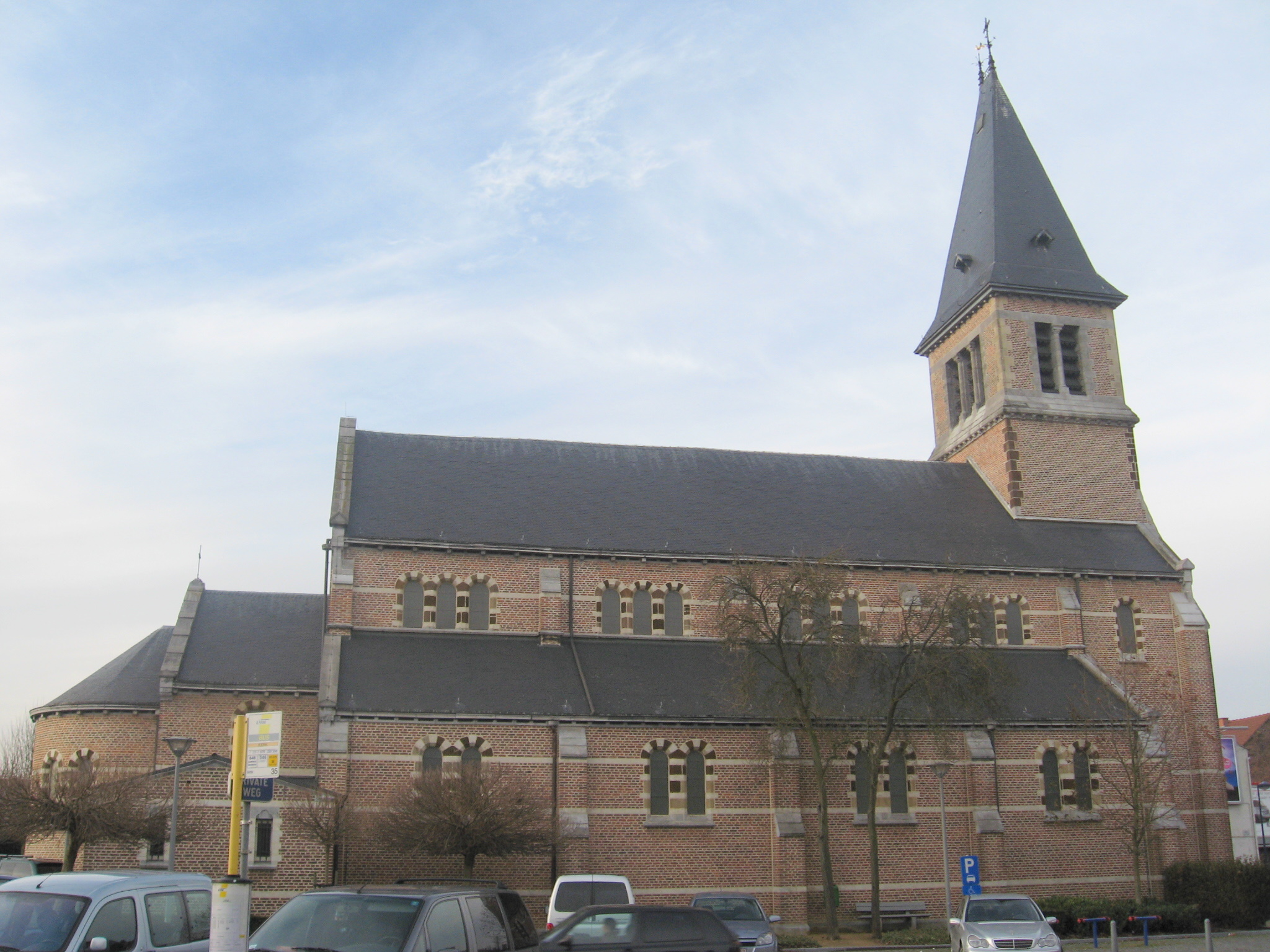 Church of Saint Peter and Paul in Grimde, Tienen, Flemish Brabant, Belgium